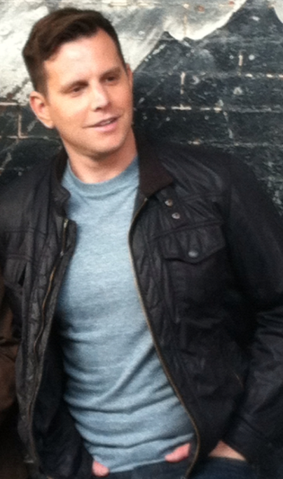 Comedian Dave Rubin in NYC 2012